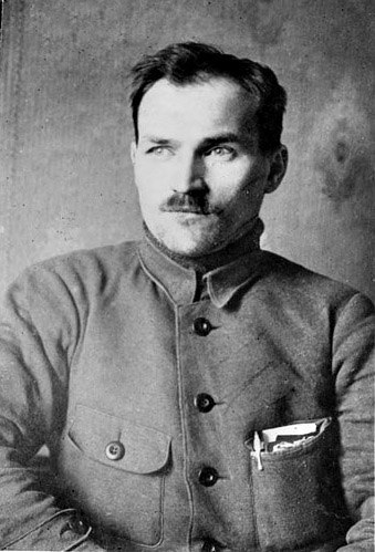 Image of Fyodor Sergeyev AKA Artem (1883 - 1921), Soviet politician, killed during a train crash